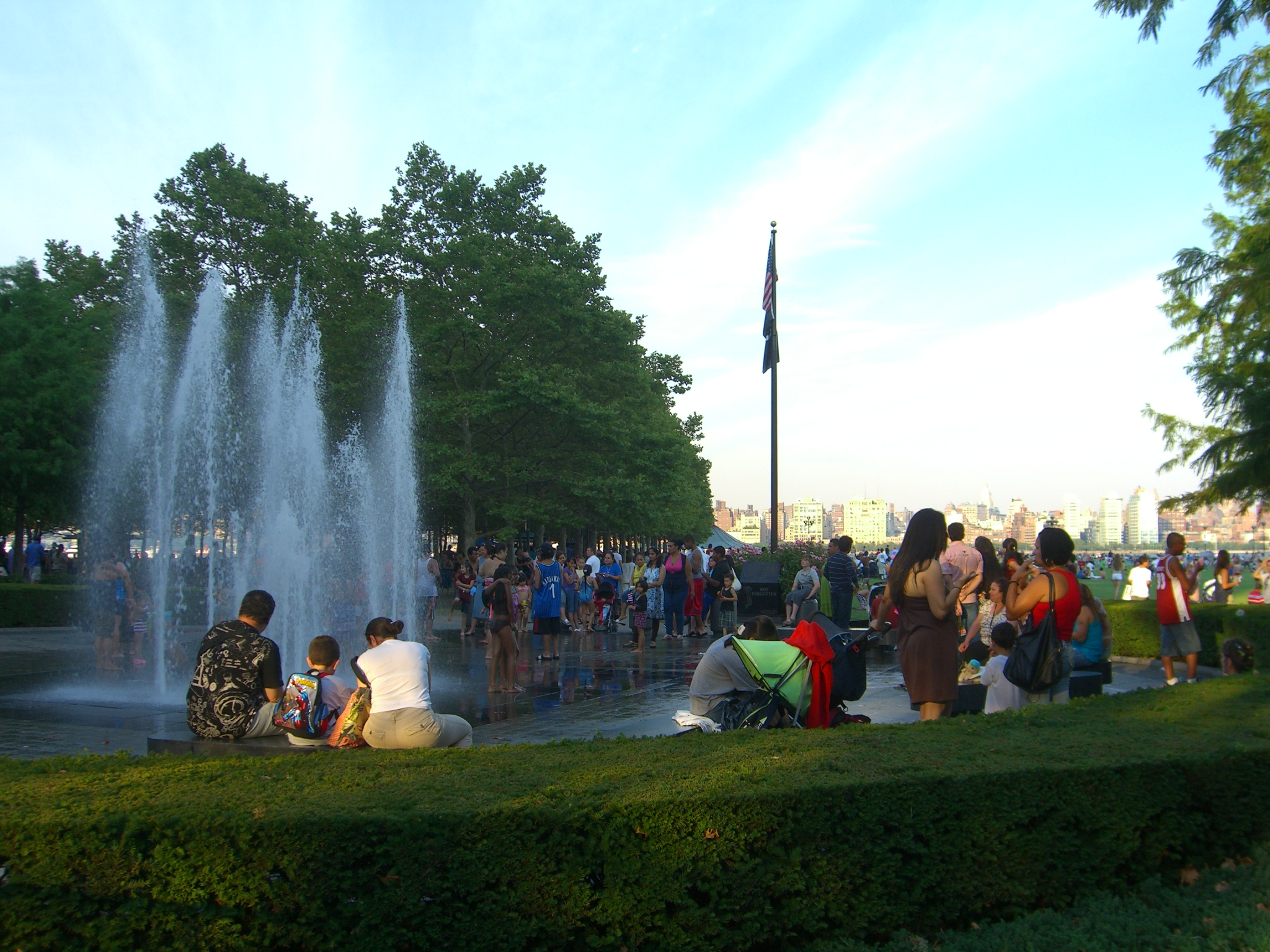 People gathered for Fourth of July festivities at Frank Sinatra Park in Hoboken, New Jersey. The skyline of Midtown Manhattan is visible in the background, across the Hudson River. Photo by Luigi Novi. This photo may be used and modified, for any purpose, only if the photographer is visibly credited in each instance in which it is used. (See licensing information below.) For more information on my photos, you can contact me here.